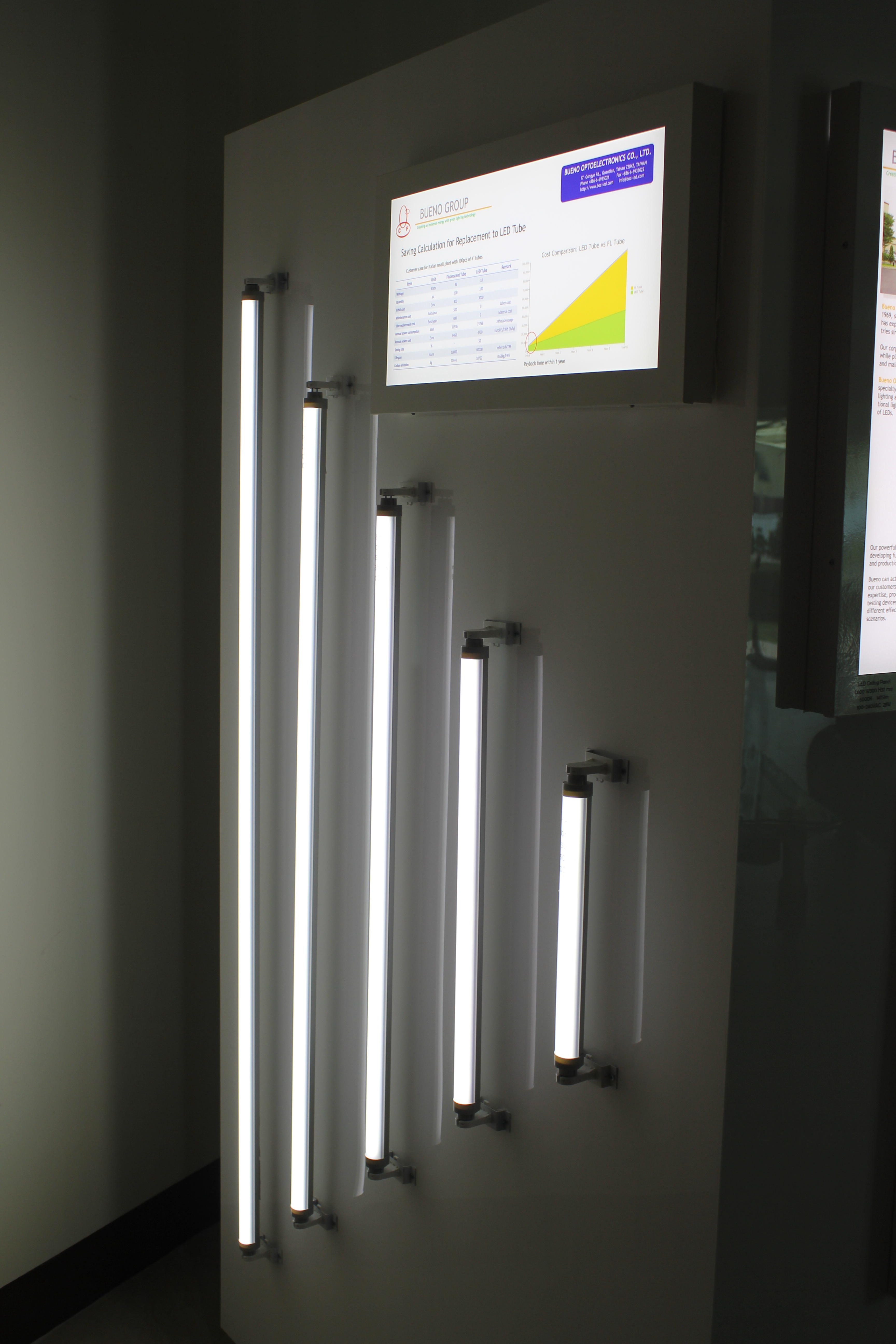 LED tubes in various length for retrofit to fluorescent tubes